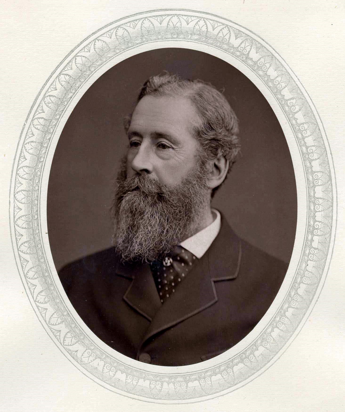 Woodburytype of "The Duke Of Abercorn". James Hamilton, 1811-1885. Nobleman and statesman.